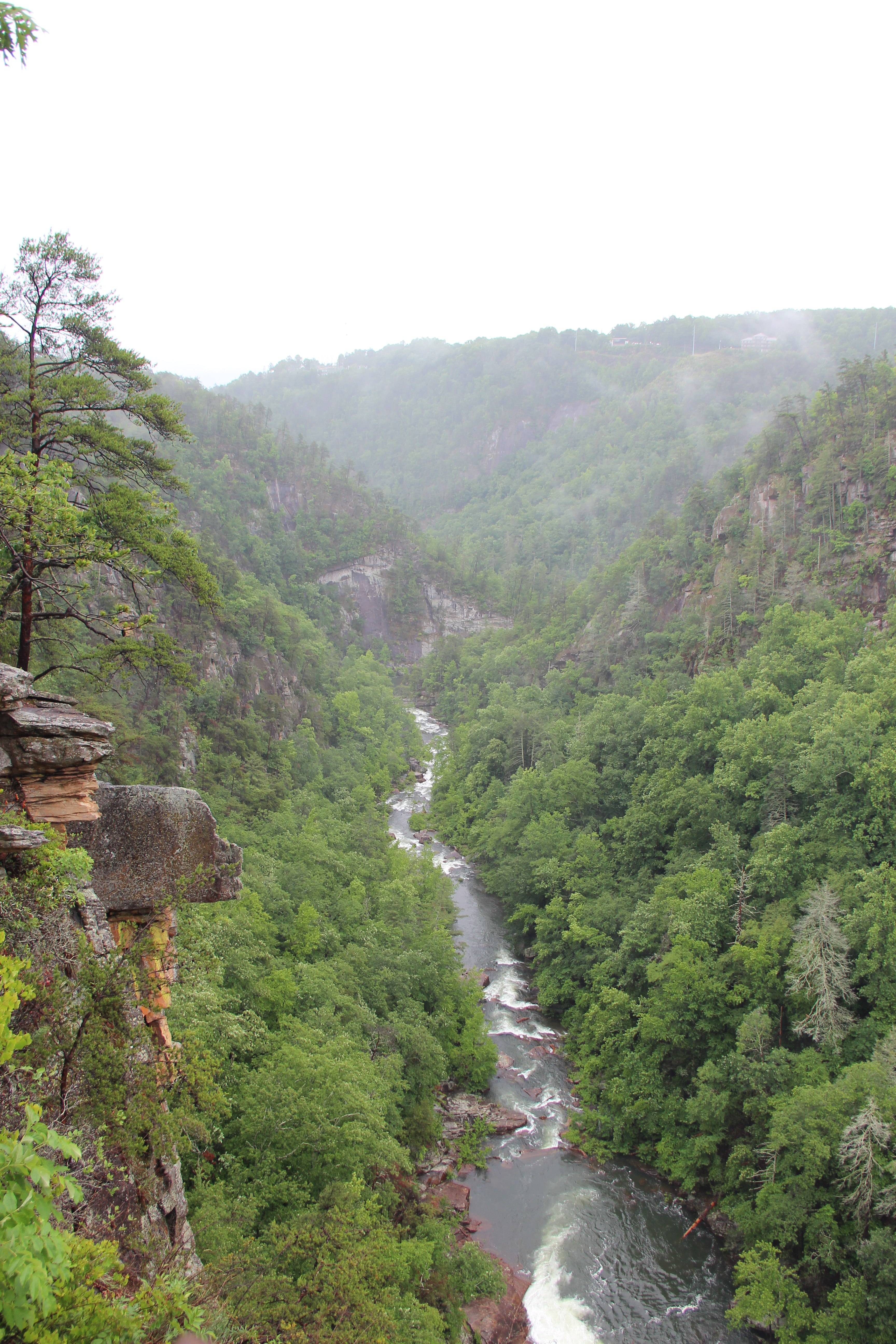 Tallulah Gorge as seen from an overlook